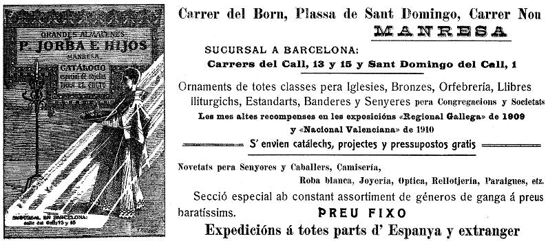 Ad for the Stores Jorba in Manresa (Catalonia)